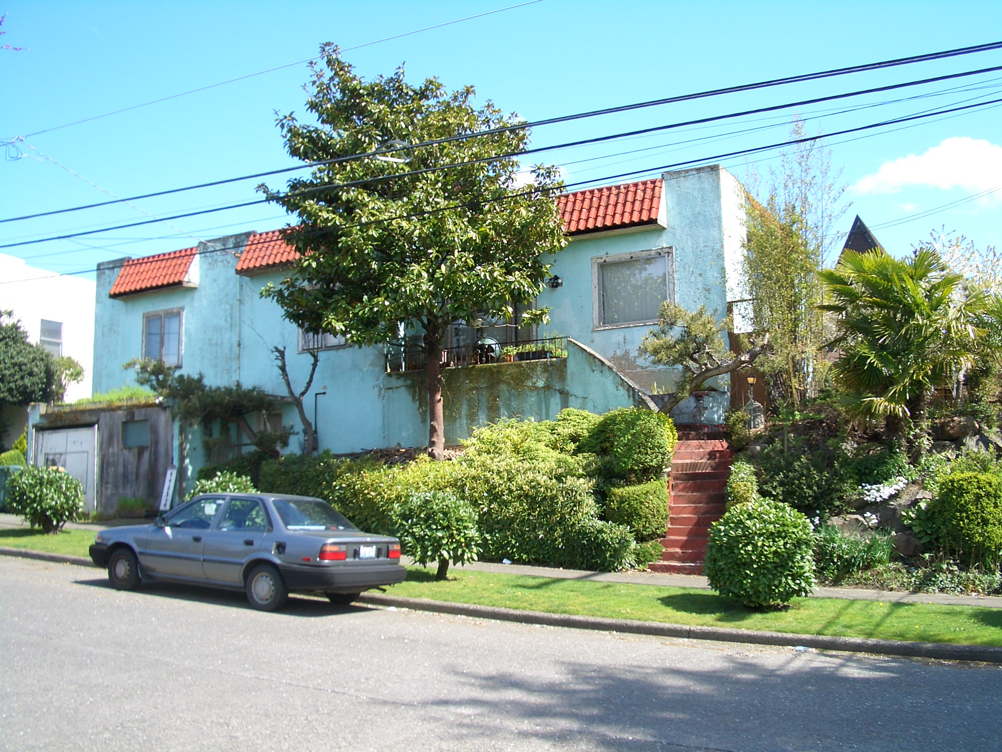 An old house a few blocks east of Rainier Ave in Seattle, around King or Weller St. Formally this is Central District, although feels more like an eastern -residential - extension of Chinatown